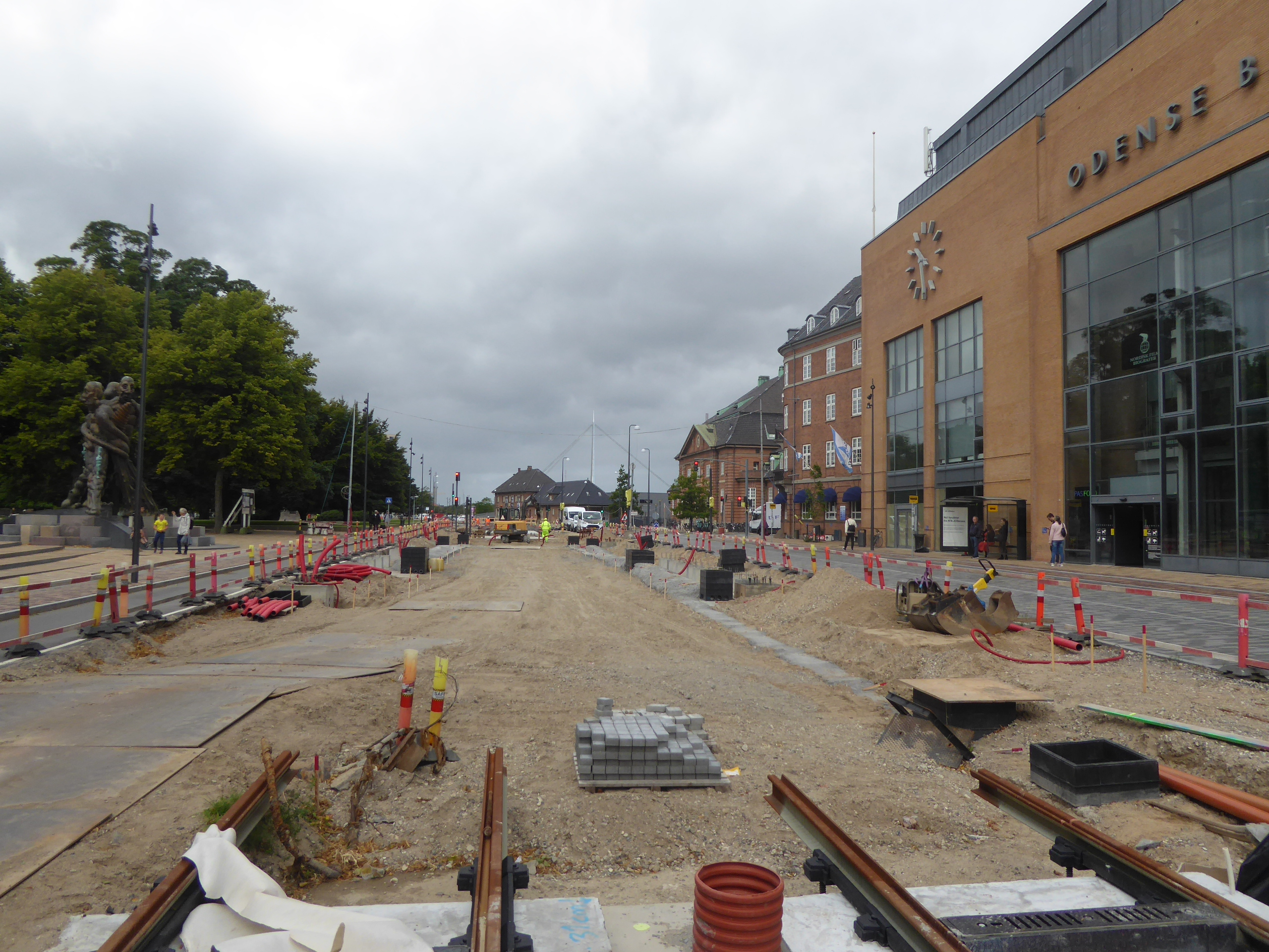 Construction of Odense Letbane on Østre Stationsvej at Odense Station in Odense in Denmark. The light rail station Odense Banegård will be situated here.